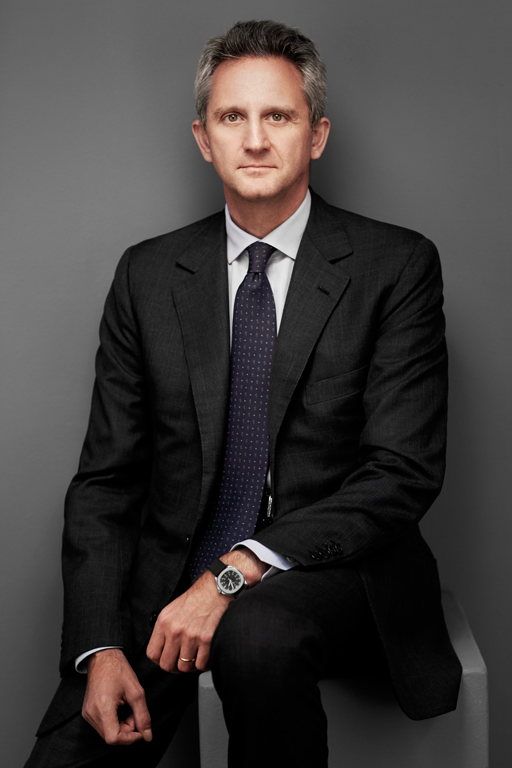 Alberto Nager, CEO Mediobanca